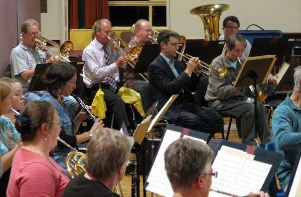 Rehearsal